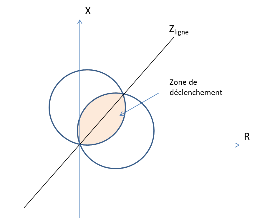 lens relay (distance protection)